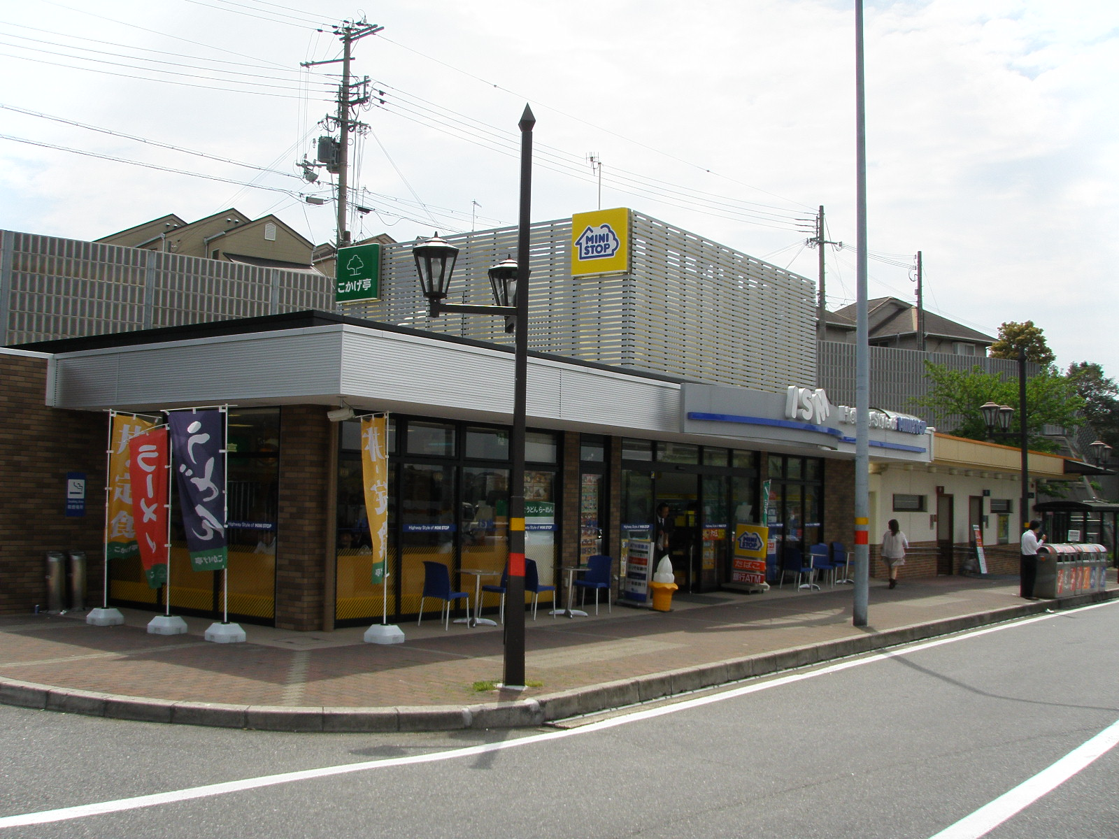 Daini Shinmei Road Tarumi Parking Area